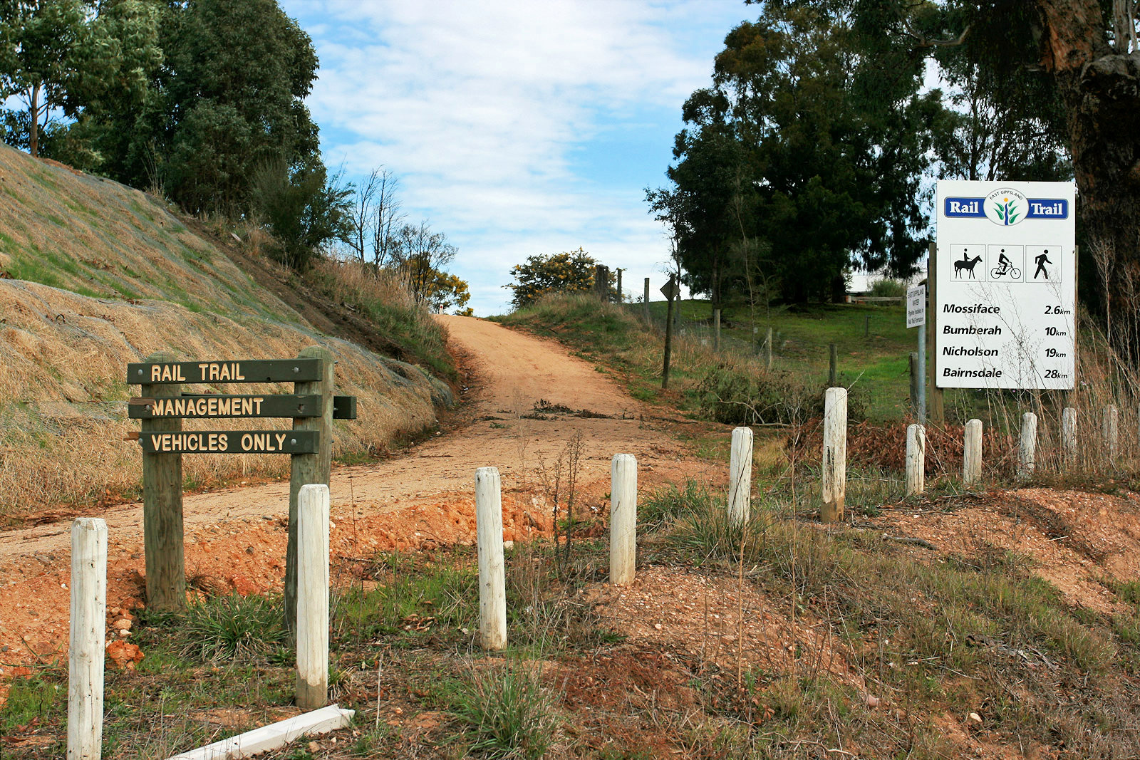 East Gippsland Rail Trail, heading south-west (towards Bairnsdale) approx. 2km west of Bruthen alongside the Great Alpine Rd. Note the distance indicators on the sign at the right - by road, Bairnsdale is approx. 21km from this point. The trail is heading up a small hill from the road to the height of the original railway, which ran along the top of the embankment at left and crossed the road to a trestle bridge.